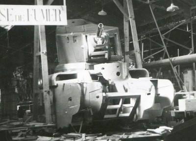 ARL Tracteur C wooden mockup